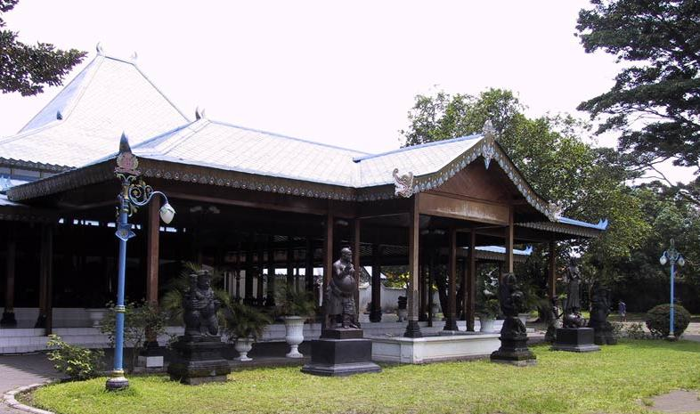 One of the bangsal (pavilions) at the Yogyakarta kraton (royal palace)